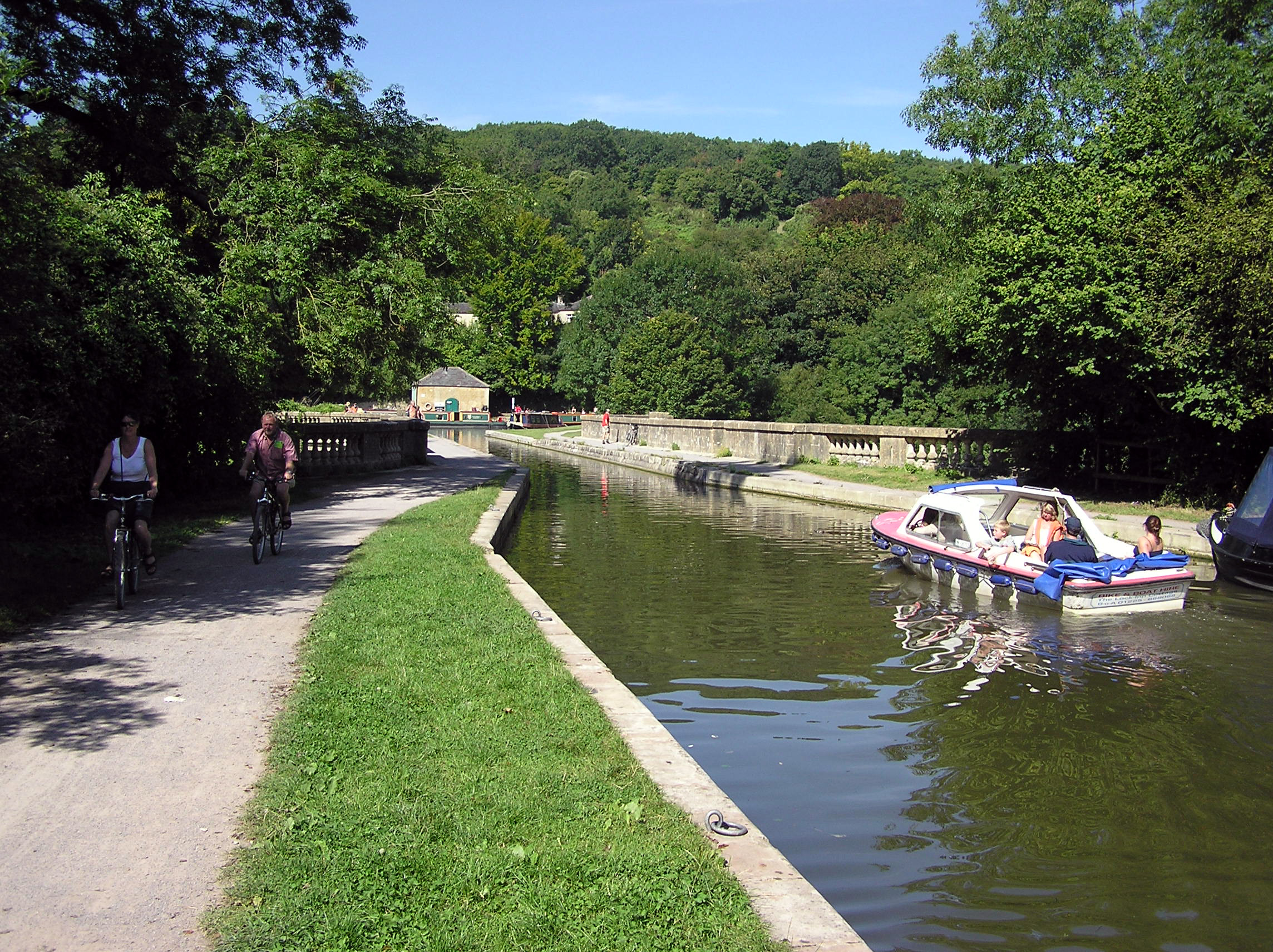 Dundas aqueduct, between Bradford on Avon and Bath. Here the canal crosses high above the River Avon (the narrowing is the aqueduct). Photographed by Adrian Pingstone in August 2005 and placed in the public domain.